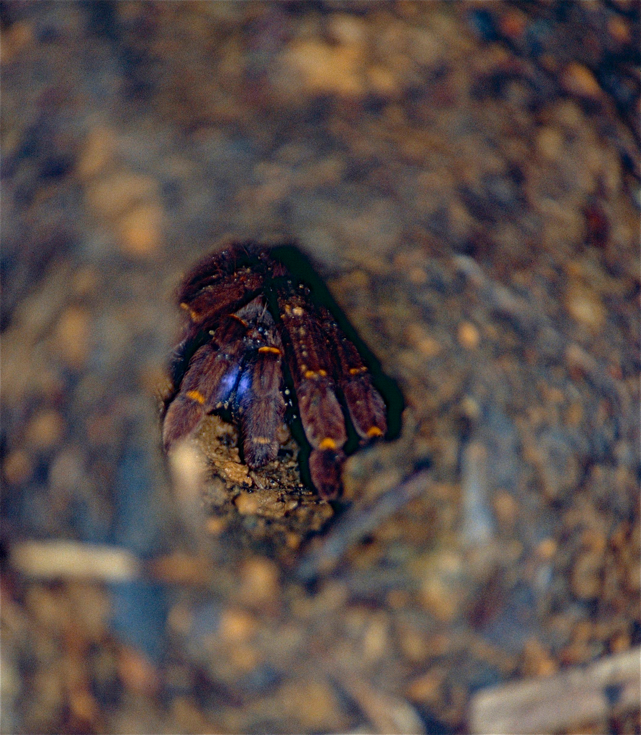 Saül, Guyane, FRANCE Scanned Slide from 2000